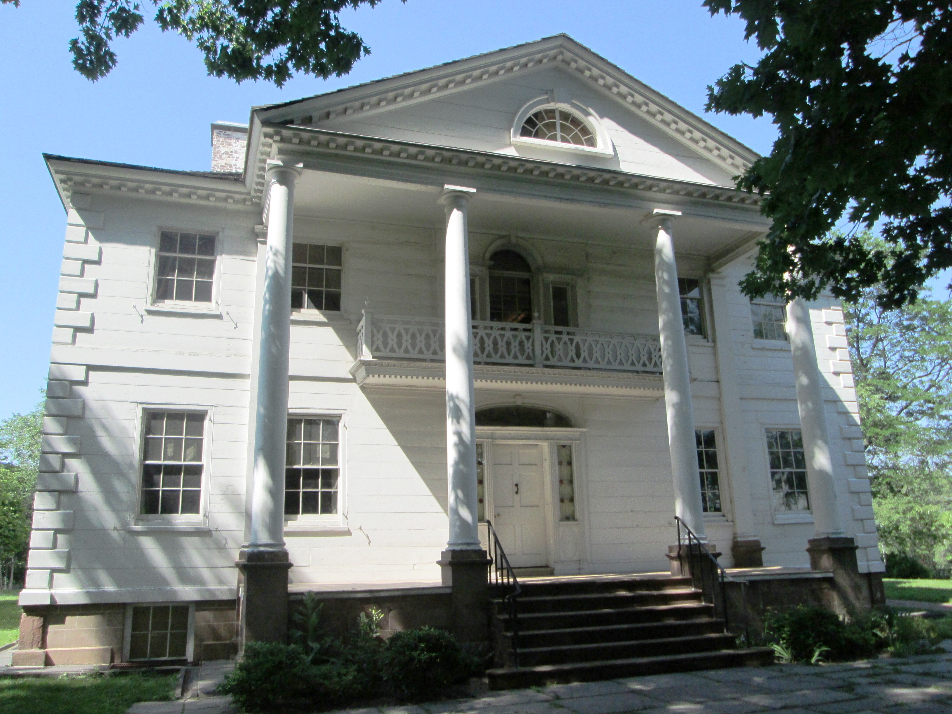 The Morris–Jumel Mansion, also known as the Roger and Mary Philipse Morris House, "Mount Morris" and other similar names, located at 65 Jumel Terrace in Roger Morris Park in the Washington Heights neighborhood of Manhattan, New York City, is the oldest house in the borough. It was built in 1765 in the Palladian style by Roger Morris, a British military officer, and served as a headquarters for both sides in the American Revolution. It was bought in 1810 by Stephen and Eliza Jumel, and remodeled in the Federal style. The interiors are Georgian. Aaron Burr later married Eliza Jumel and lived in the house. The estate was sold off in lots after 1882. Z(Sources: Guide to NYC Landmarks(4th ed.) and AIA Guide to NYC (5th ed.))